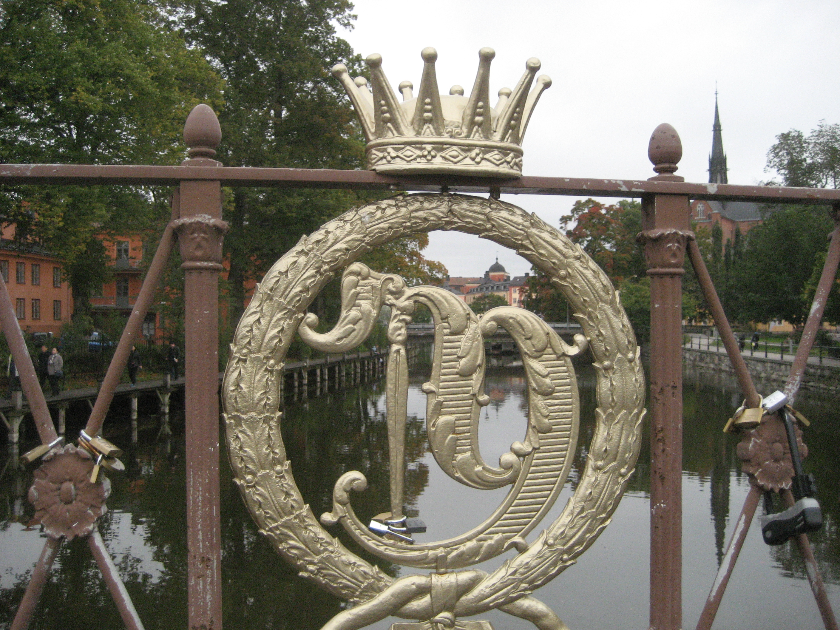 Bridge (Järnbron) between Linnegatan and St. Johannesgatan in Uppsala (Sweden). The crown and the letter C are reminders to the then crown prince Charles XV of Sweden.